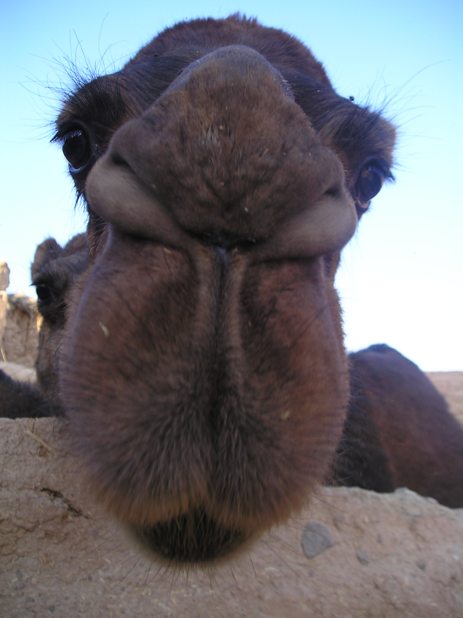 A camel in the Iranian desert. 2004. Photo by Bertil Videt